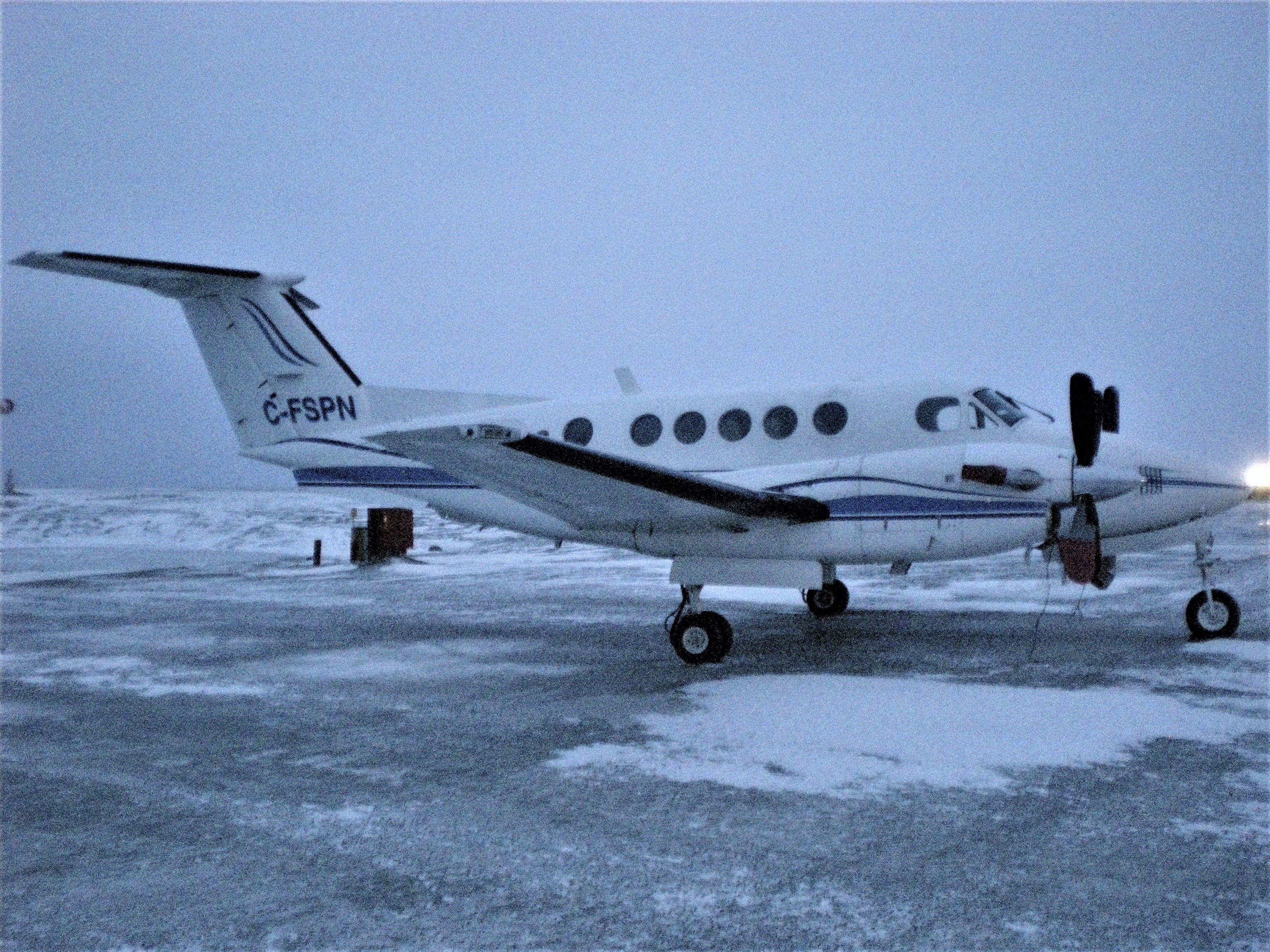 Keystone Air Service BE20 C-FSPN at Cambridge Bay Airport. Taken about 45 minutes before sunrise.